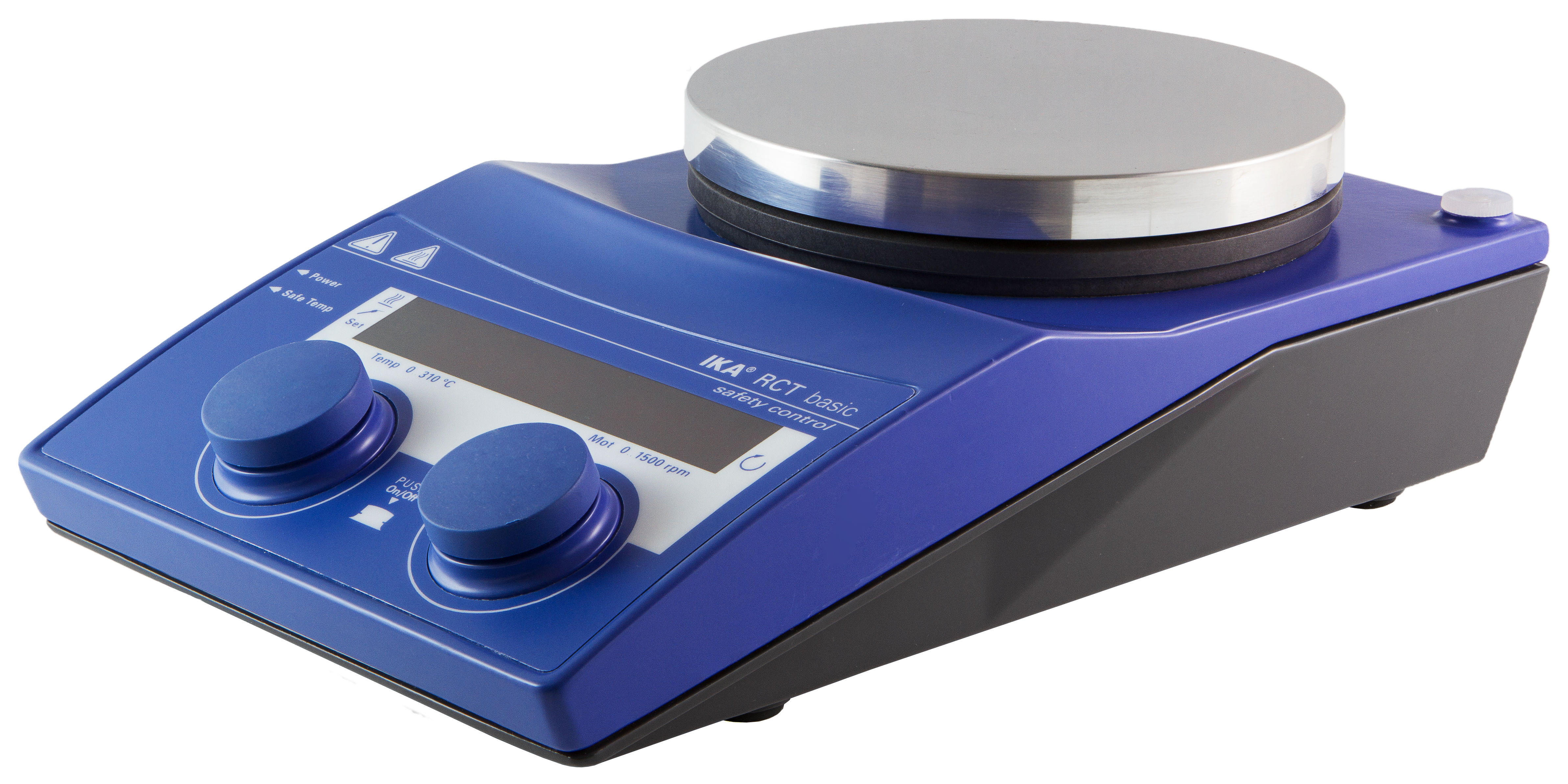 IKA RCT basic magnetic stirrer with heating plate.